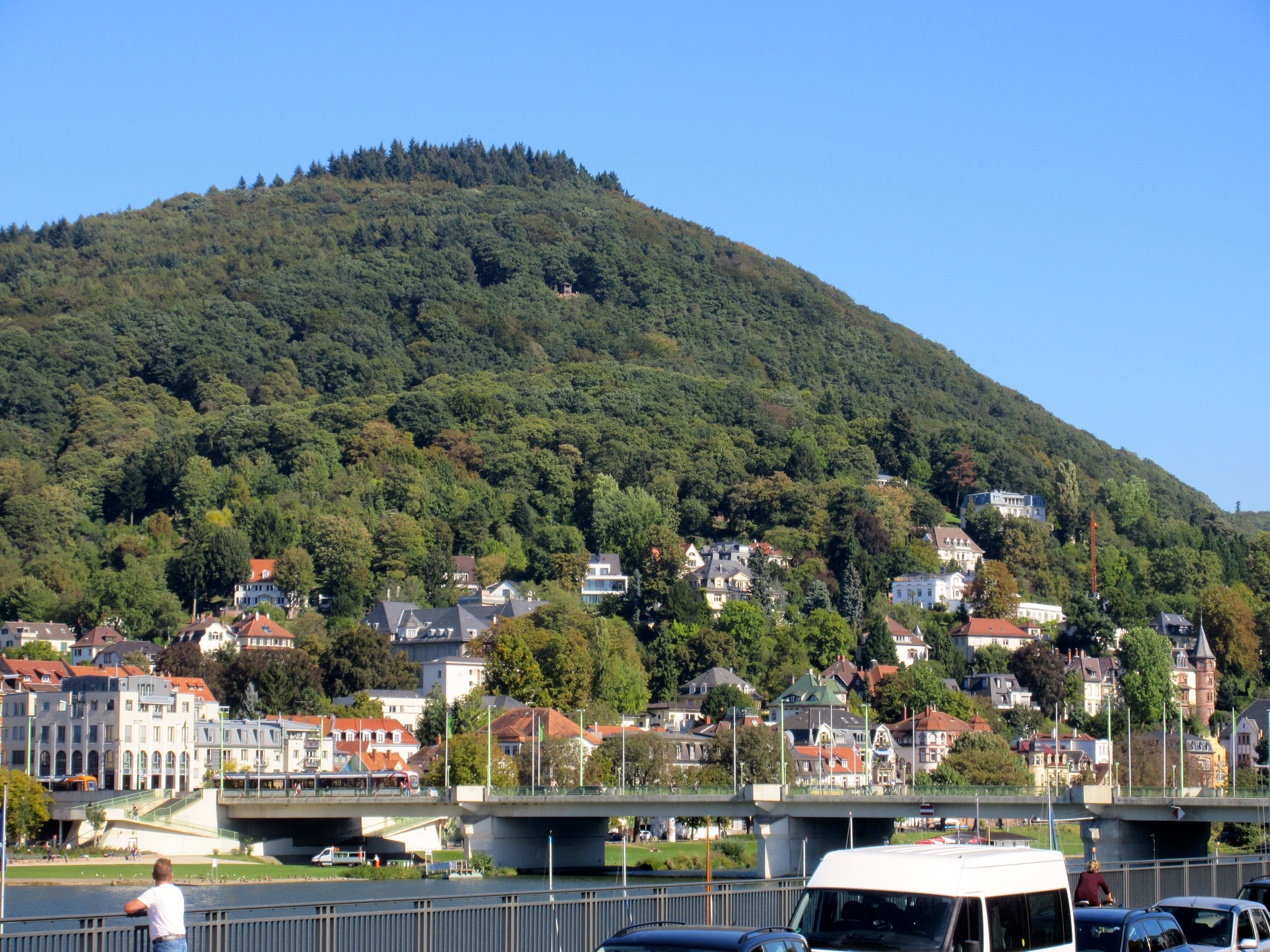 The river Neckar in Heidelberg